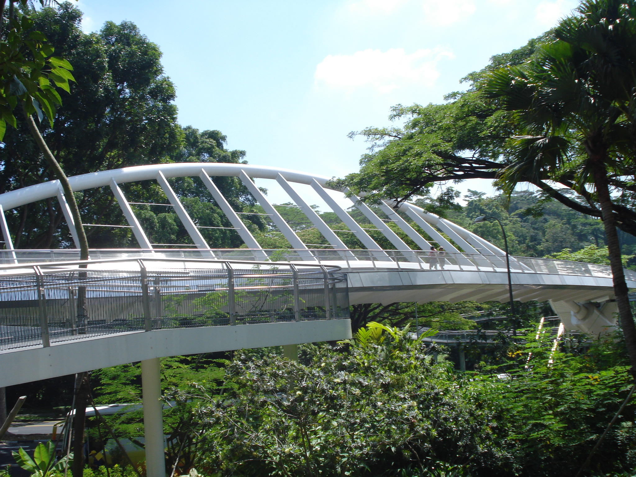 Alexandra Arch, which connects Forest Walk and Flora Walk in the Southern Ridges of Singapore.